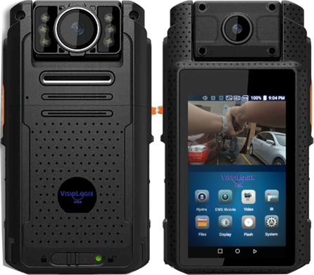 VisioLogix Dual Lens Body Worn Camera